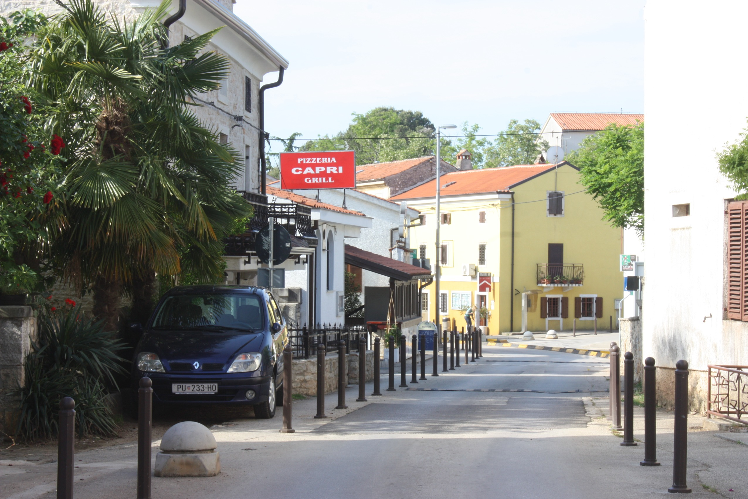 Tar, the street Ulica Sv. Martina